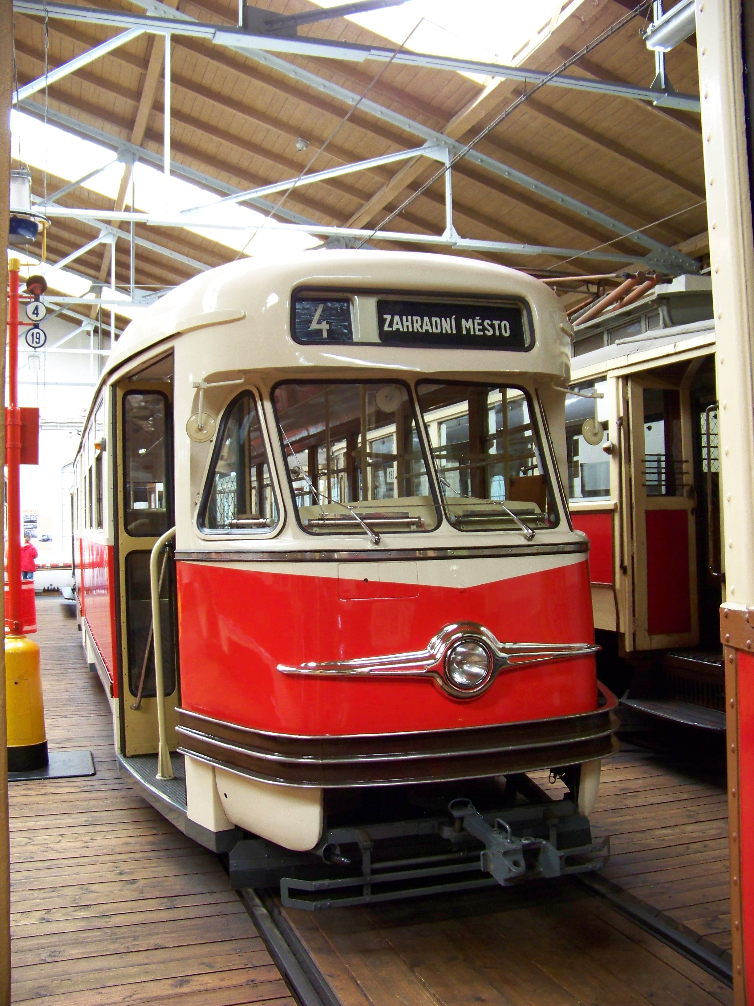 Prague-Střešovice, Czech Republic. Střešovice tram depot, Public Transport Museum. A tram Tatra T2.